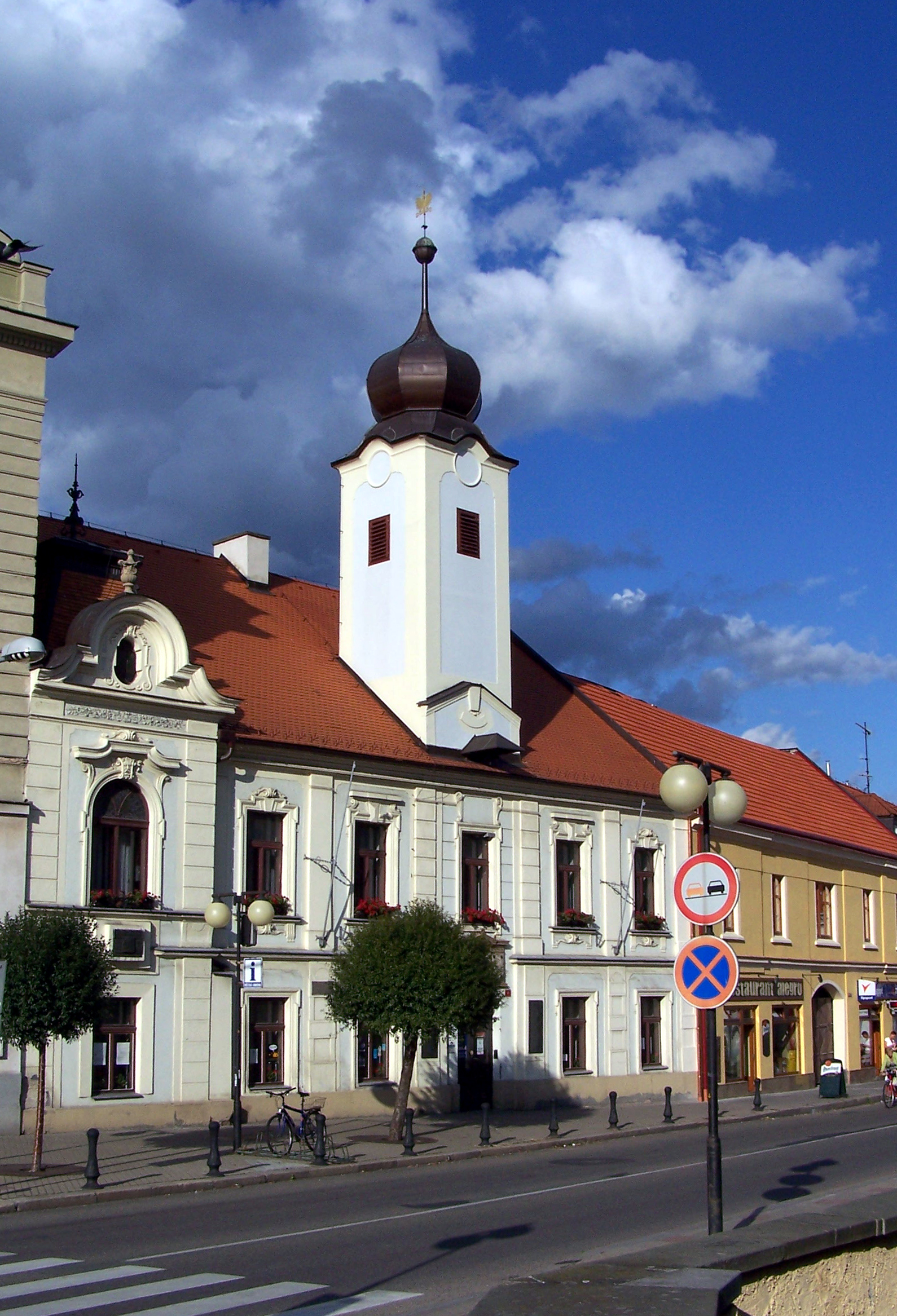 The City library in Poděbrady.